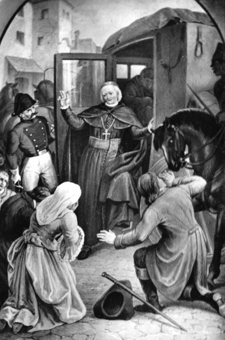 One of 11 historical images about the life of Tyrolean patriot Andreas Hofer created for the Sacred Heart Memorial Chapel at St. Leonhard in Passeier (South Tyrol). The prince-bishopric of Trent was secularized in 1803 in the course of the German mediatization which saw the secularization of virtually all the ecclesiastical principalities of the Holy Roman Empire.